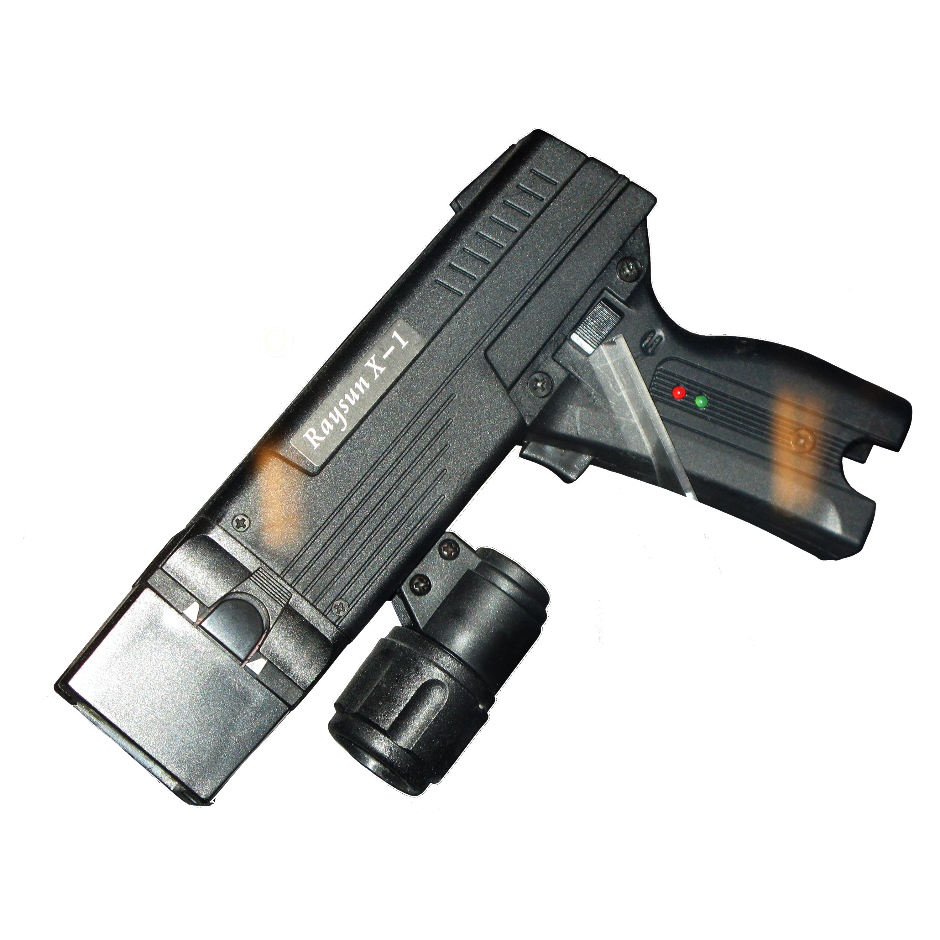 Electric weapon